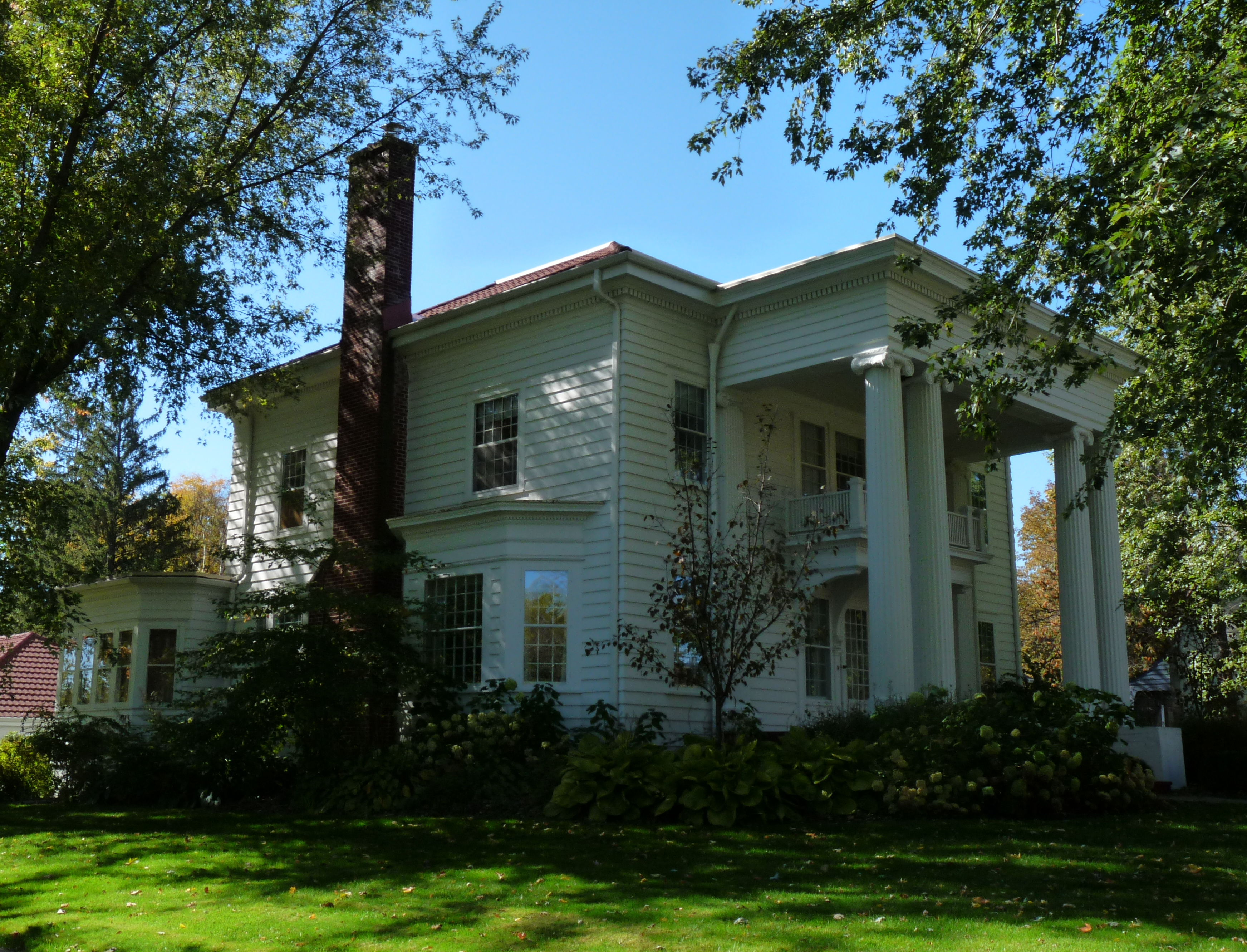 A Greek Revival style house, built c. 1900, on the west side of Marshfield, Wisconsin, on the subdivided George Adler farm. A contributing property to the West Fifth-West Sixth Street Historical District, on the National Register of Historic Places.